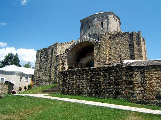 Old Serbian monument. The complex of Pec monasteries in Kosovo and Metohia province. Photo by Milan.